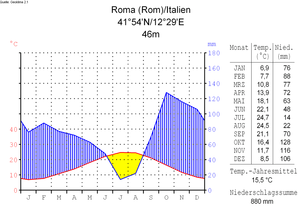 climate chart in the format by Walter and Lieth, metric, °Celsisus and millimeters, made with Geoklima 2.1